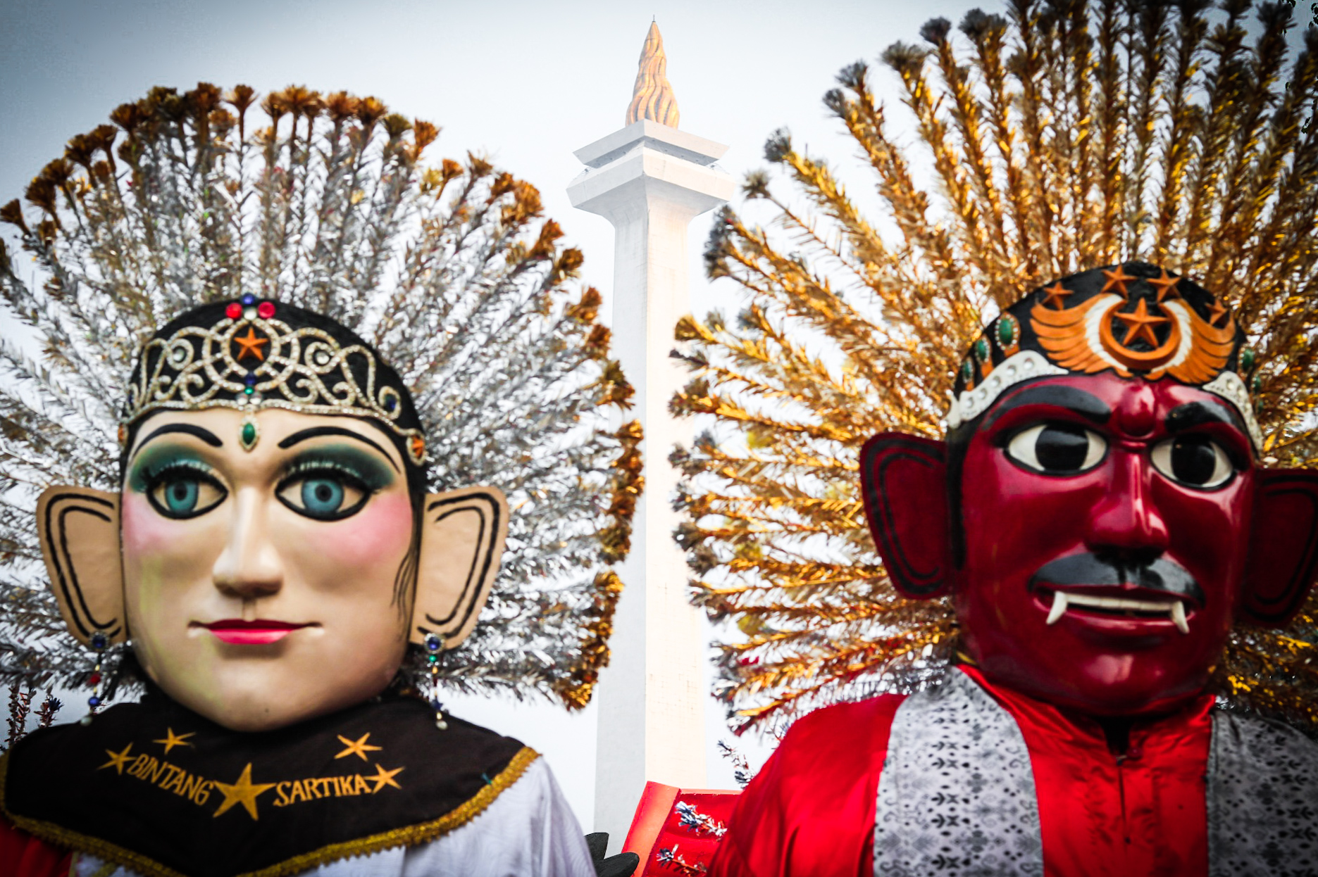 Ondel-ondel is a form of Betawi folk performance which is often performed at public parties. It seems that ondel-ondel plays the ancestor or ancestor who always looked after his children and grandchildren or residents of a village.